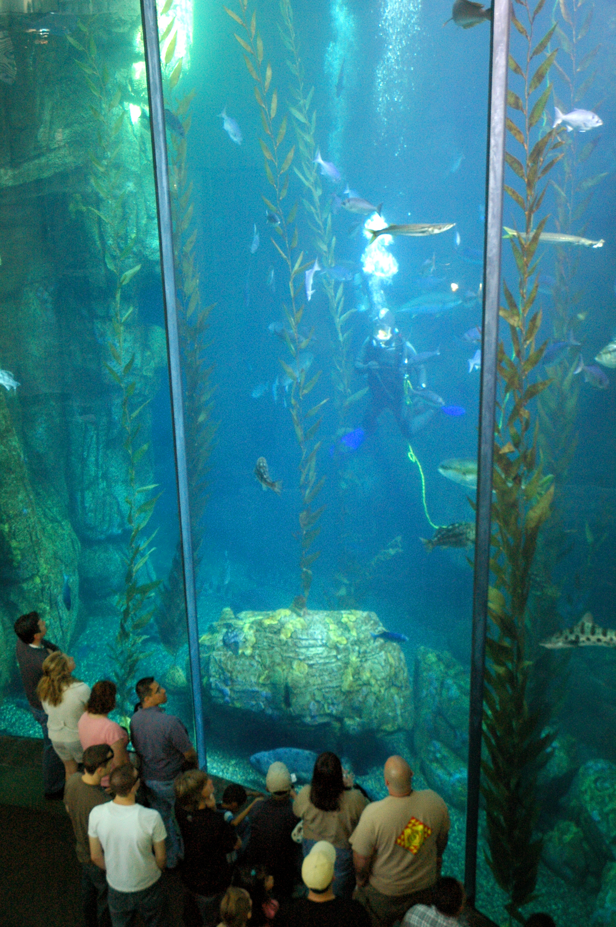 Blue Cavern exhibit at the Aquarium of the Pacific in Long Beach, CA. A SCUBA diver addresses a group of visitors using a specially adapted mask.